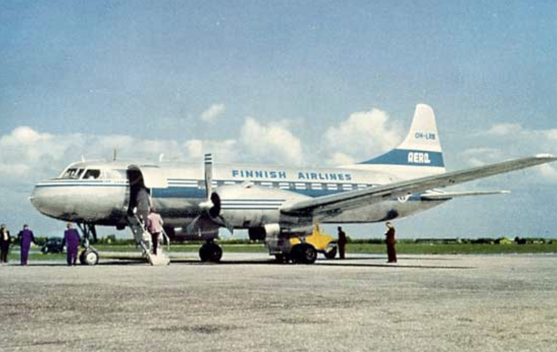 Aero O/Y Convair Metropolitan aircraft (OH-LRB) between 1953 and 1960.